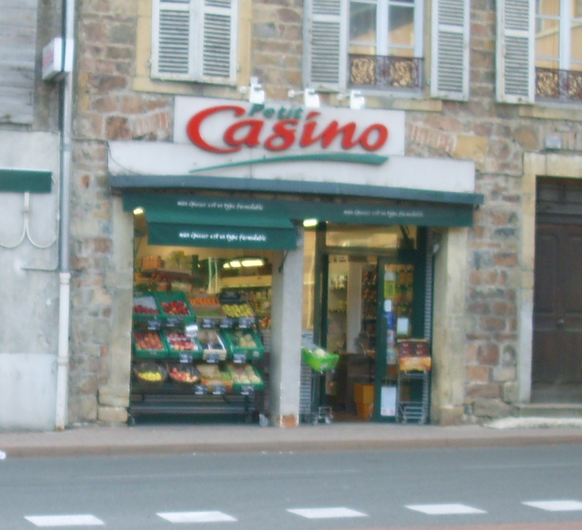 A Petit Casino grocery store in Lamure-sur-Azergues (69)